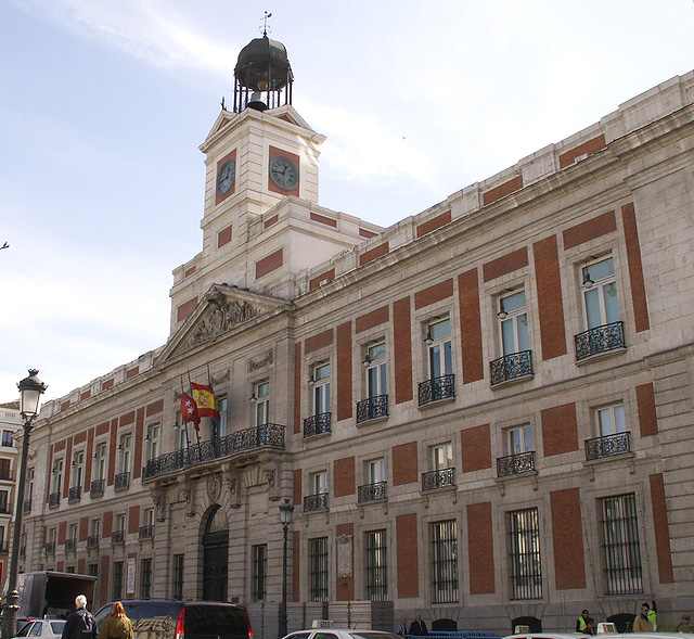 North façade (Puerta del Sol, square) of the Real Casa de Correos in Madrid (Spain). Building was projected by Jaime Marquet and built between 1760 and 1768.